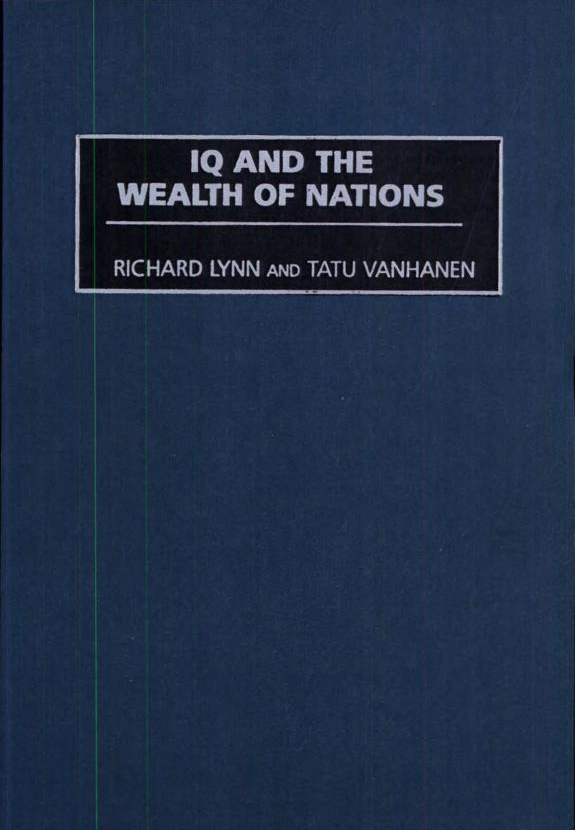 Simple and ineligible cover from the book IQ and the wealth nations.